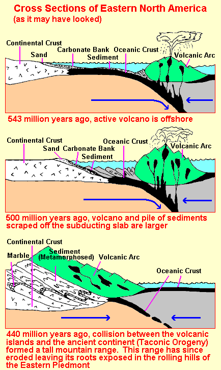 Illustration of the Taconic orogeny